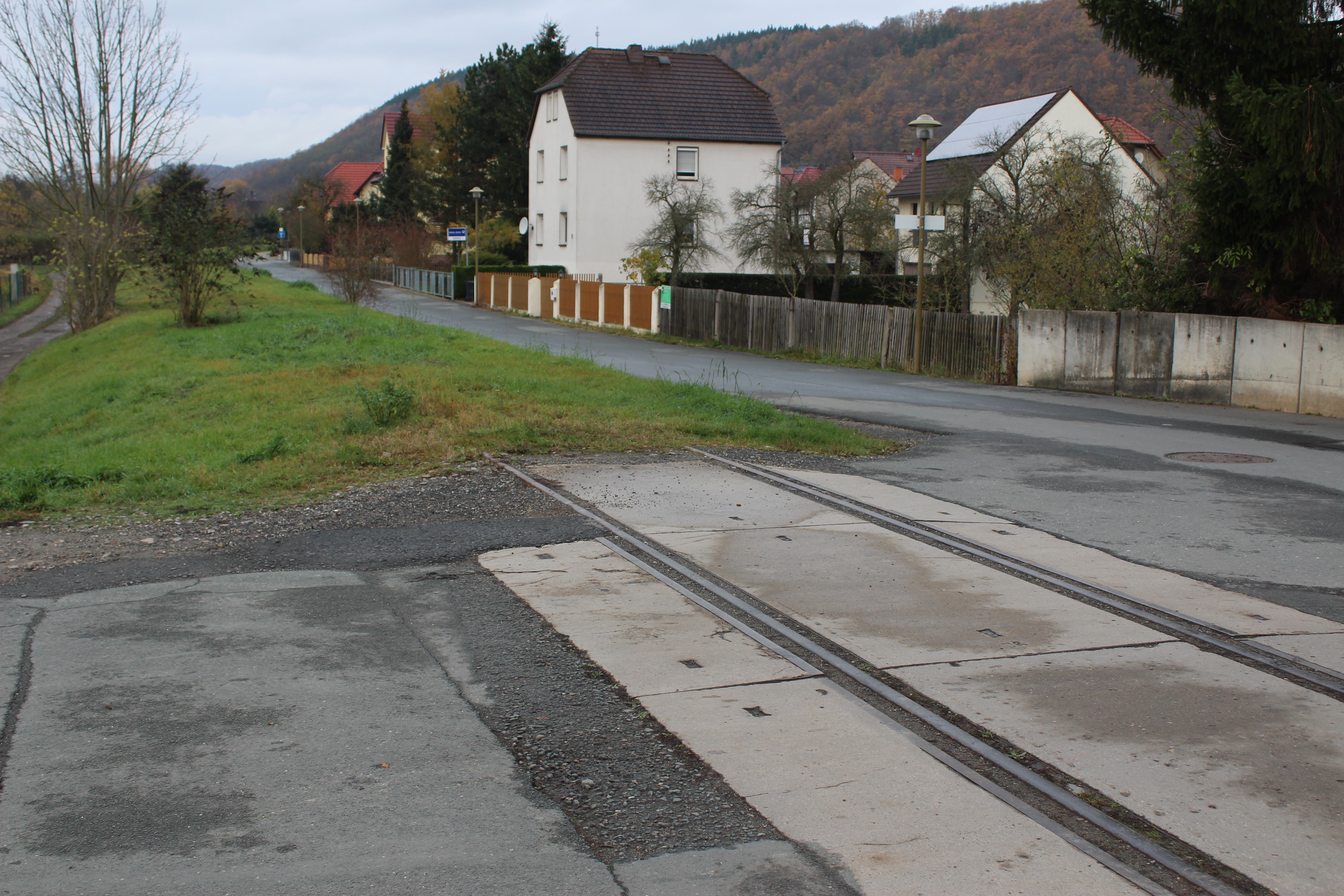 railway Rudolstadt-Schwarza-Bad Blankenburg in Schwarza